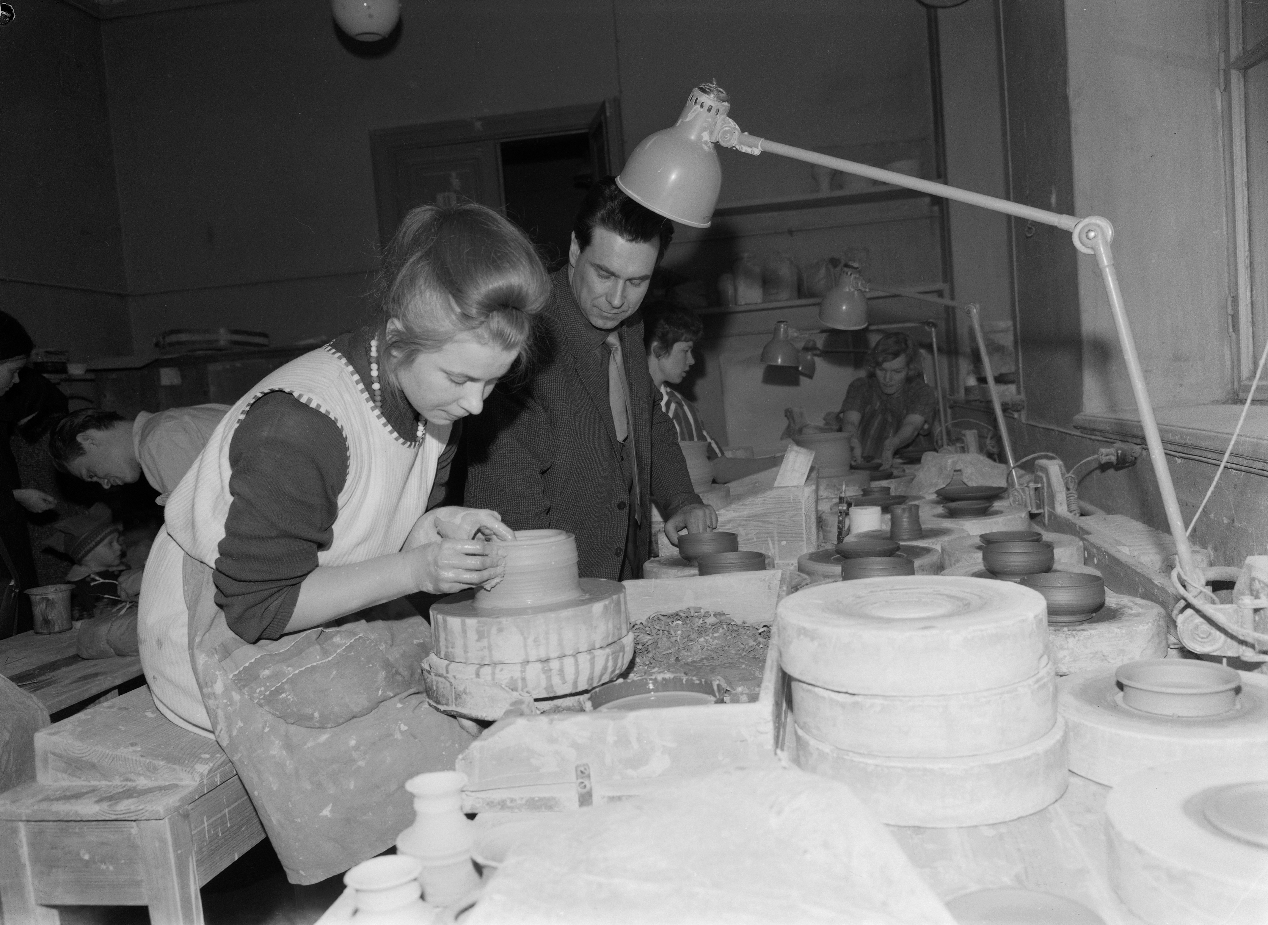 Photograph of the Finnish ceramics student Liisa Seitsonen and principal Markus Visanti (1921–2003) at the ceramics department of the Finnish Art Academy School Ateneum in Helsinki.